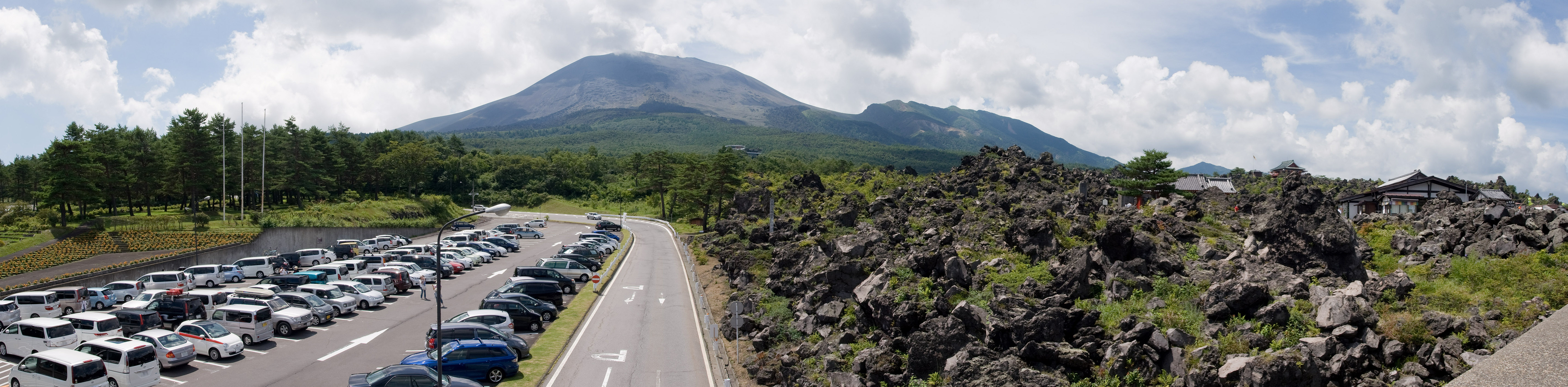 Mt.Asama as seen from Onioshidashi, Tsumagoi Vill., Gunma Pref., Japan